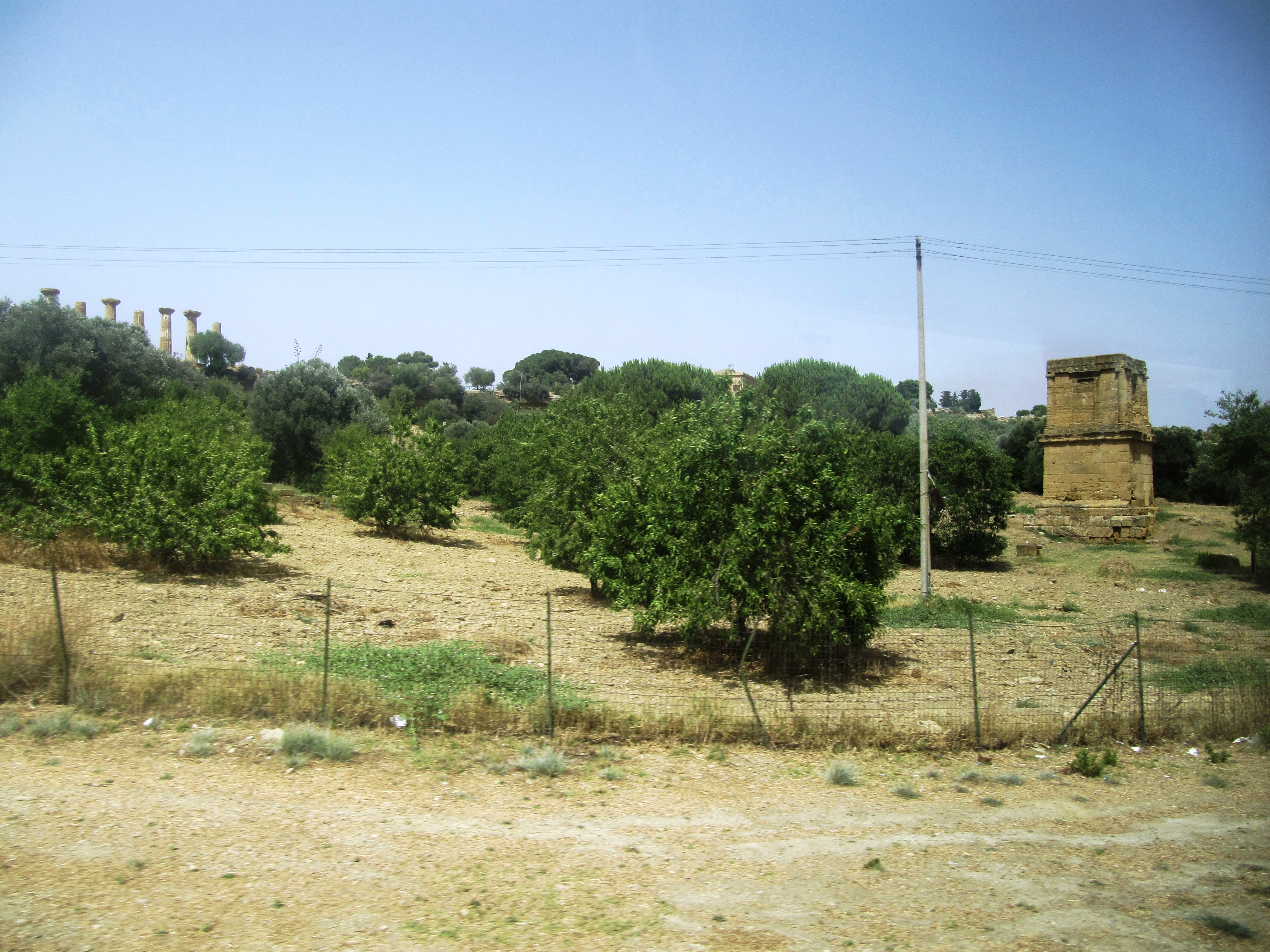 The so-called "Tomb of Theron" near the Porta Aurea, Agrigento.